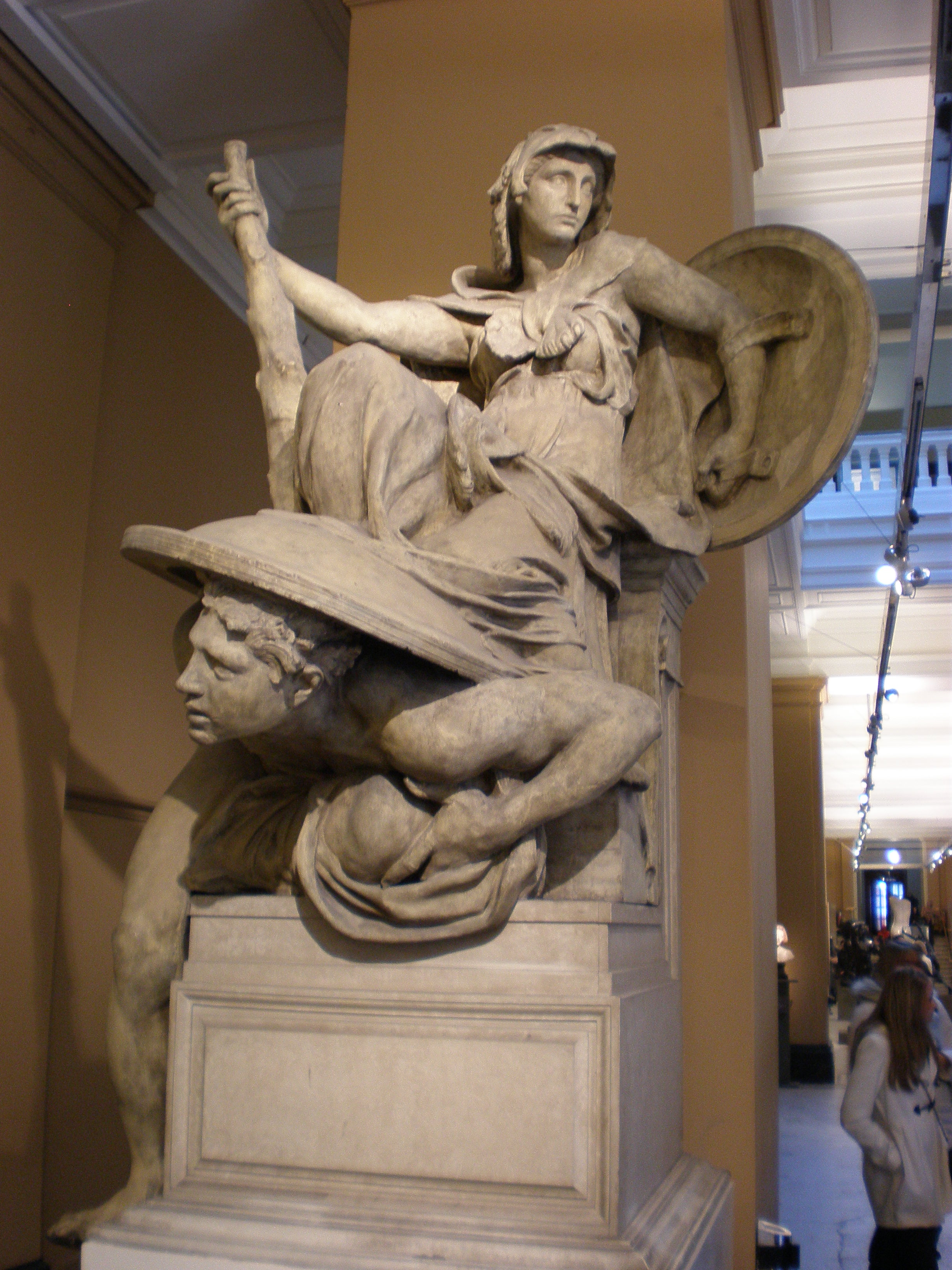 Model for Wellington Monument - Valour and Cowardice 1857-66 Alfred Stevens (1817-75) England Plaster After a long selection process, the little-known sculptor Alfred Stevens was awarded the commission to produce a monument to the Duke of Wellington. He had already produced a reduced version of his intended monument as his competition model in 1857. This model is also in the Museum's collections (Museum no. 44-1878). This group and its companion depicting Truth and Falsehood (Museum no. 321A-1878) are full-size models for the bronze groups featured on the Wellington monument in St Paul's Cathedral. They were not completed by Stevens until 1866. In this work the draped female figure of Valour triumphantly crushes the struggling figure of Cowardice beneath a shield. The entire monument comprised of a triumphal arch with the bier and recumbent effigy of Wellington. The colossal figures of Truth and Falsehood and Valour and Cowardice were placed at either side. The monument was not completed until 1912, almost 40 years after the death of the sculptor. Collection ID: 321B-1878 This photo was taken as part of Britain Loves Wikipedia in February 2010 by David Jackson.